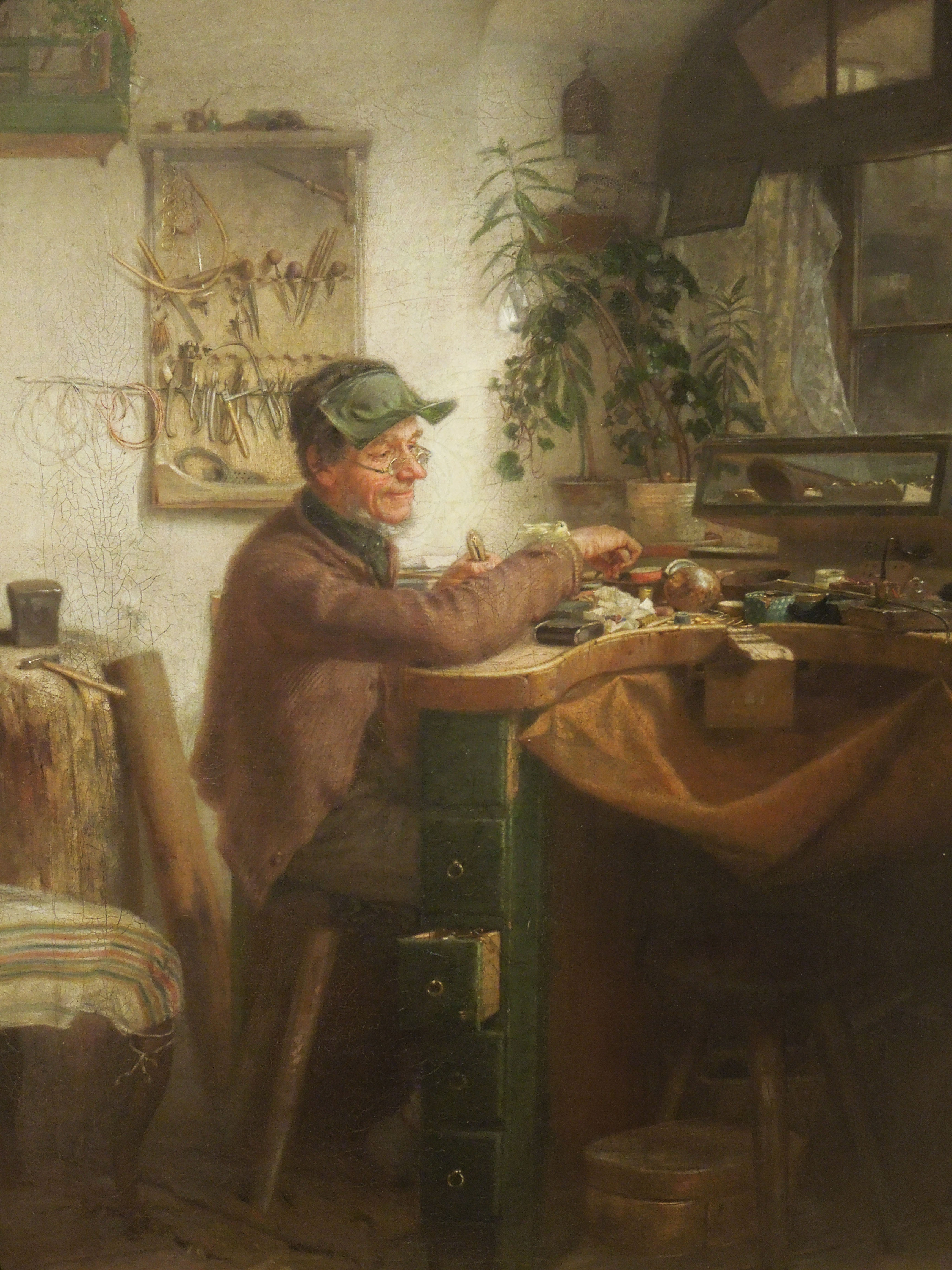 Jeweller